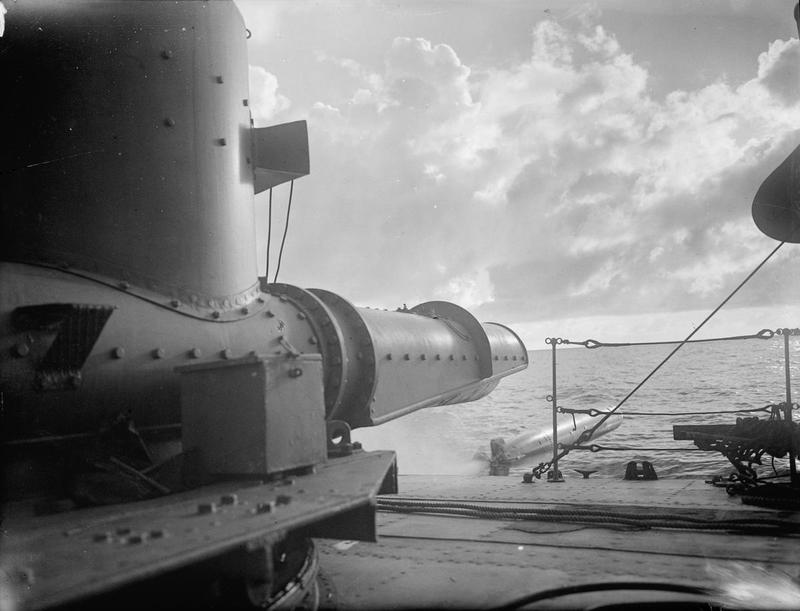 British Destroyer Fires a Torpedo, and Brings It Back Again. 25 November 1942, in the Indian Ocean Aboard HMS Derwent. a British Destroyer Carried Out a Torpedo Exercise and Afterwards Recovered the Torpedo. The torpedo seen leaving the tube after being fired from HMS DERWENT.